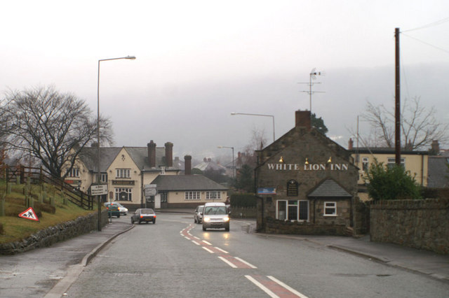 Red, or White, Sir? The two pubs on the hill into Hope are the White Lion and the Red Lion